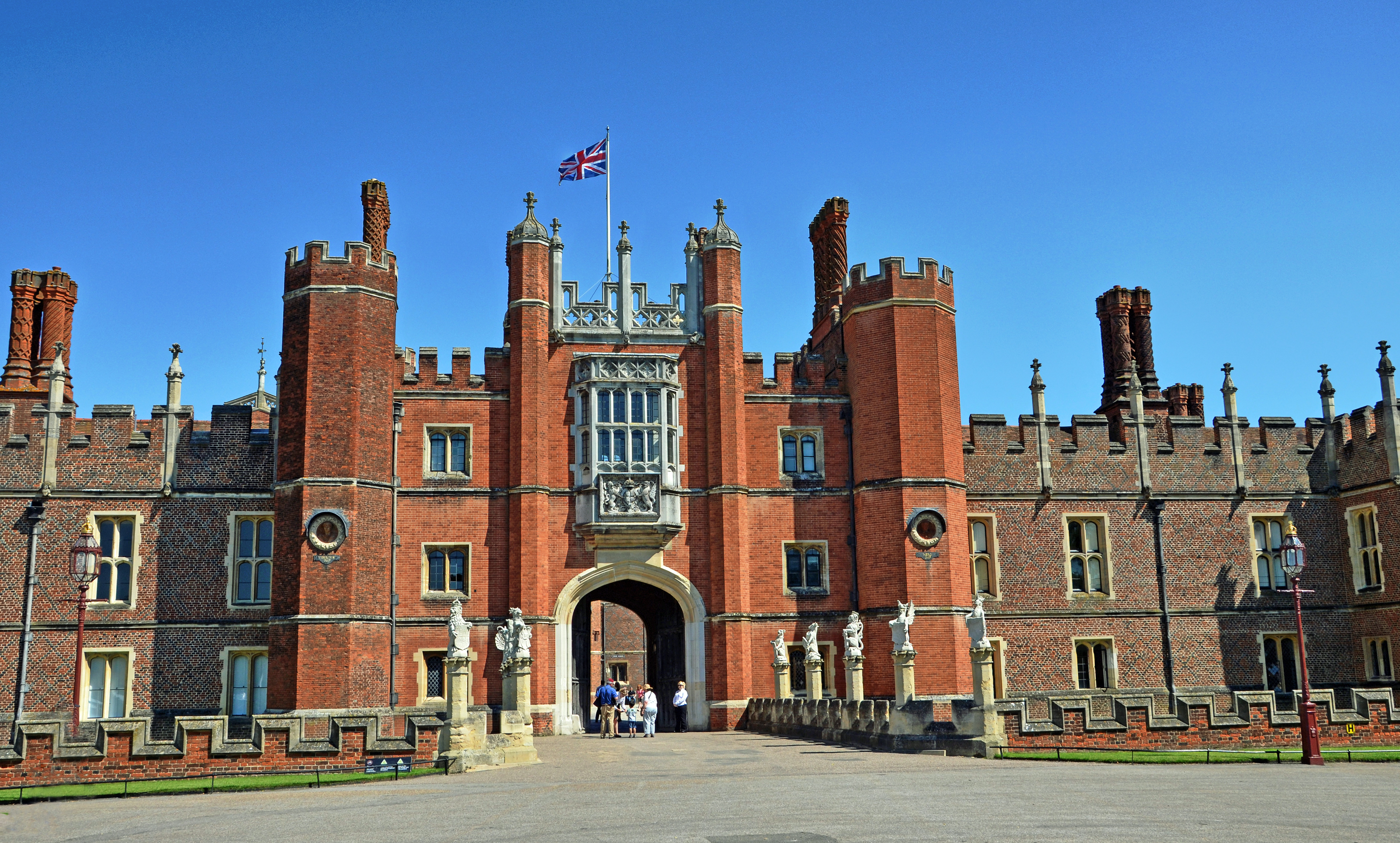 Built for Thomas Wolsey in 1514, but taken from him by King Henry VIII a few years later. Used by the royals for many years, notably William III who rebuilt much of it. It's now a popular tourist attraction. This is the main entrance or 'Great Gate'.